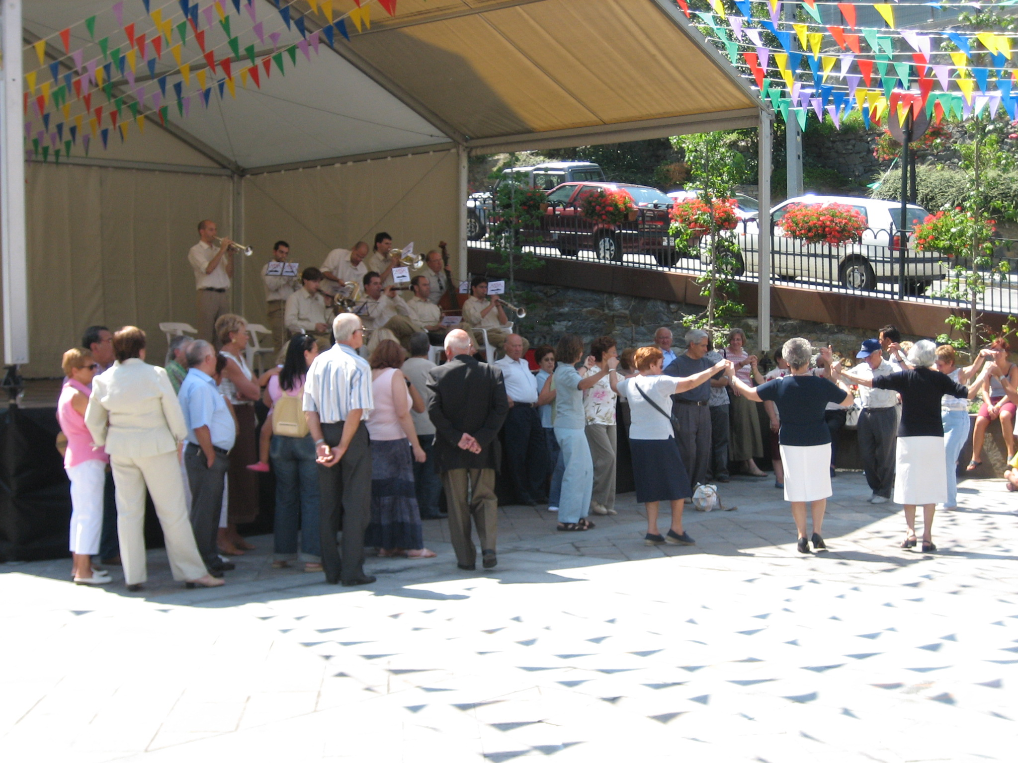 'Festa major' in La Massana (2005), Andorra